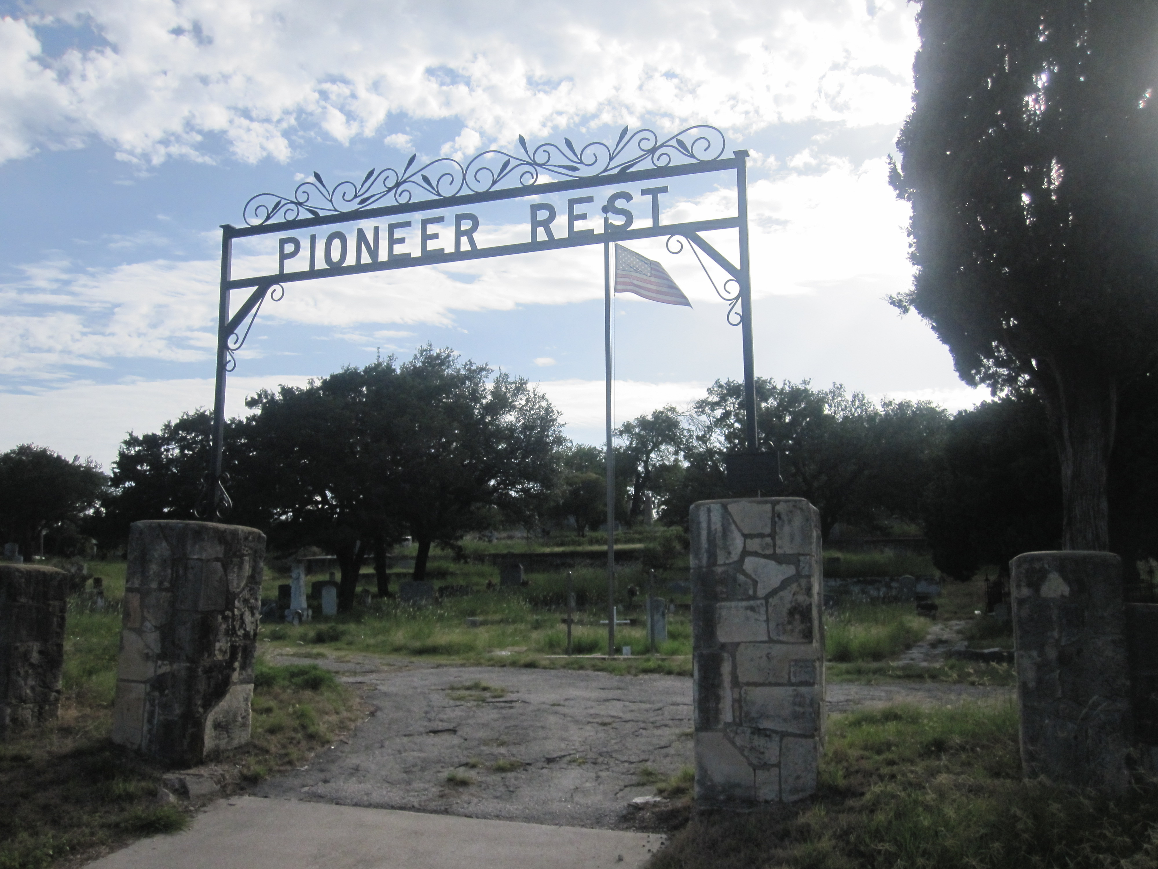 I took photo with Canon camera in Menard, TX.